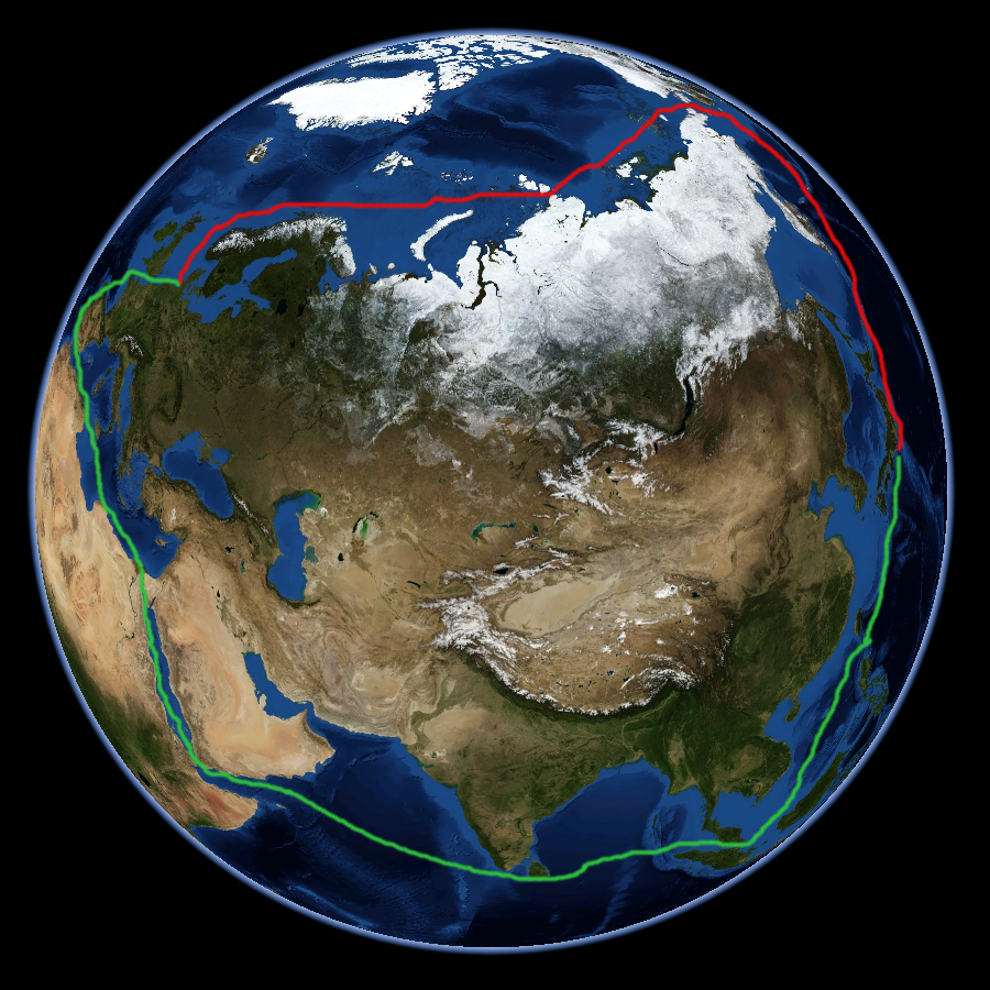 Hamburg—Tokyo: Northern Sea Route ~13000 km (red line), via Suez Canal ~21000 km (green line)